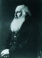 Camille Pissarro (1830–1903)